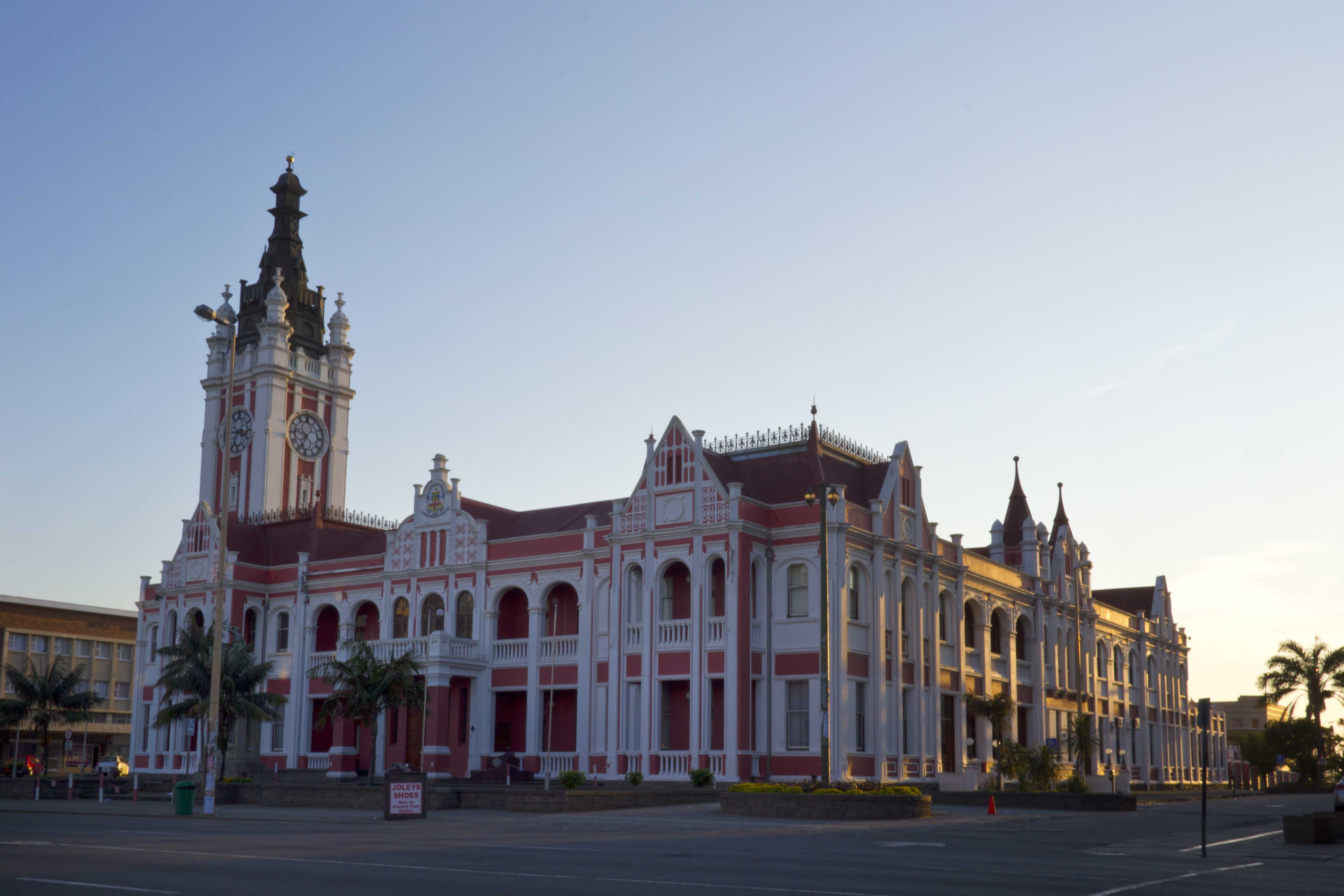 Victorian, neo-classical and Renaissance features, form an integral part of the historical and architectural core of East London. This media shows a South African Protected Site with SAHRA file reference 9/2/026/0005.